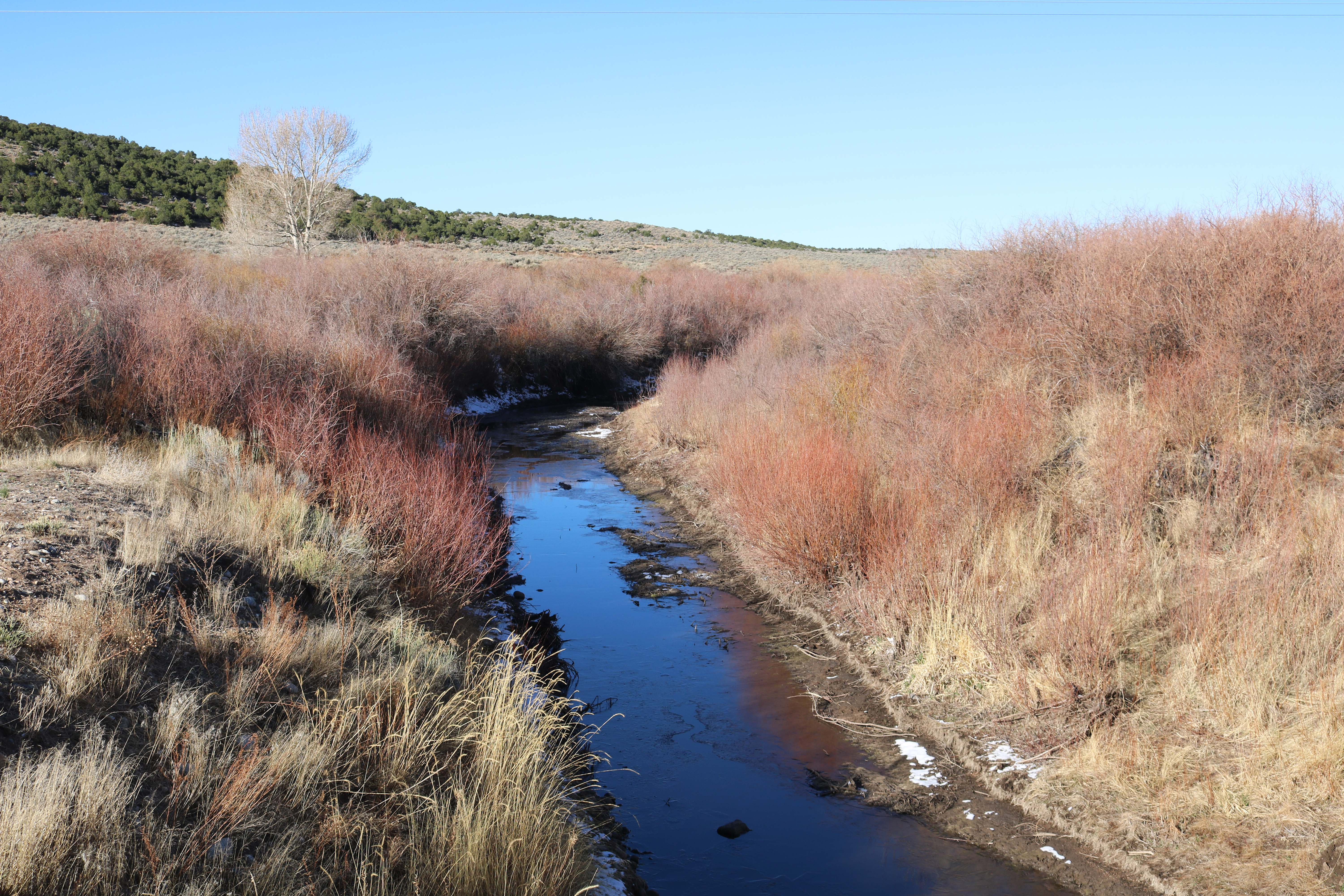 Sangre de Cristo Creek in Costilla County, Colorado. The view is from a bridge over the creek on Trinchera Ranch Road North.